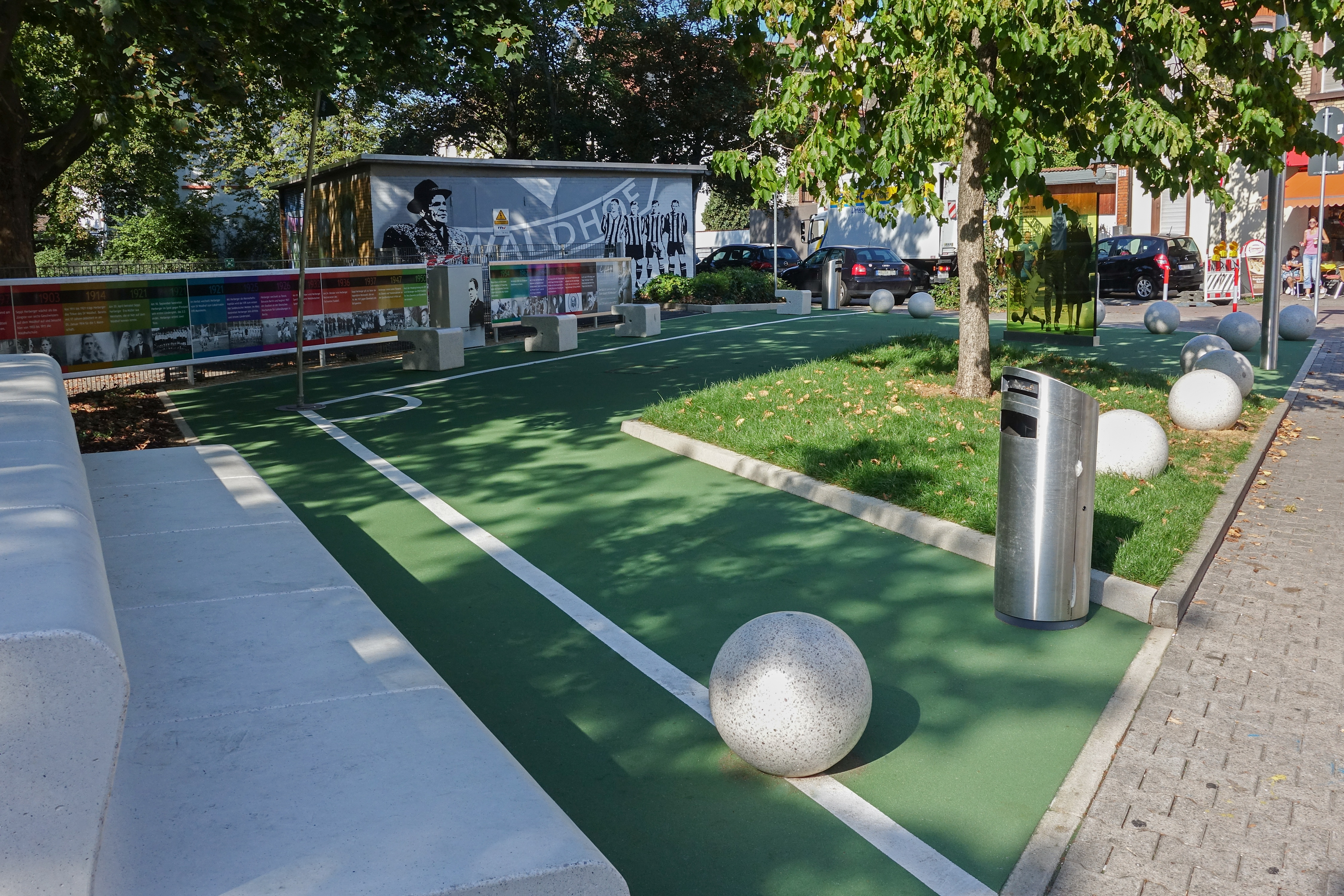 Seppl-Herberger-Place in Mannheim (Germany)